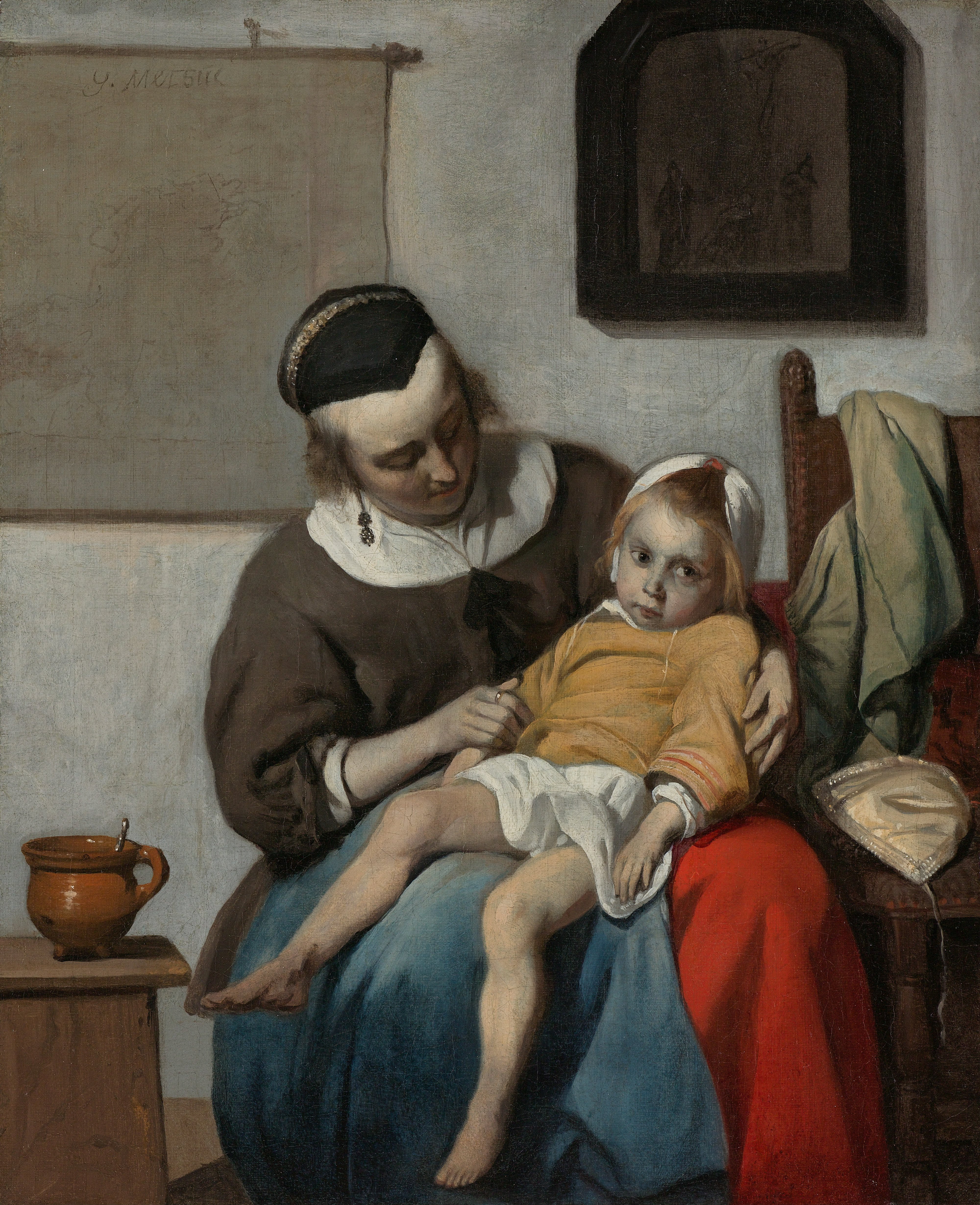 The pale, sick child hangs limply in the woman's lap. Beside them on the cupboard stands a stoneware bowl with spoon. On the wall behind hang a maps which has been rolled open, and a framed print showing the Crucifixion of Christ.